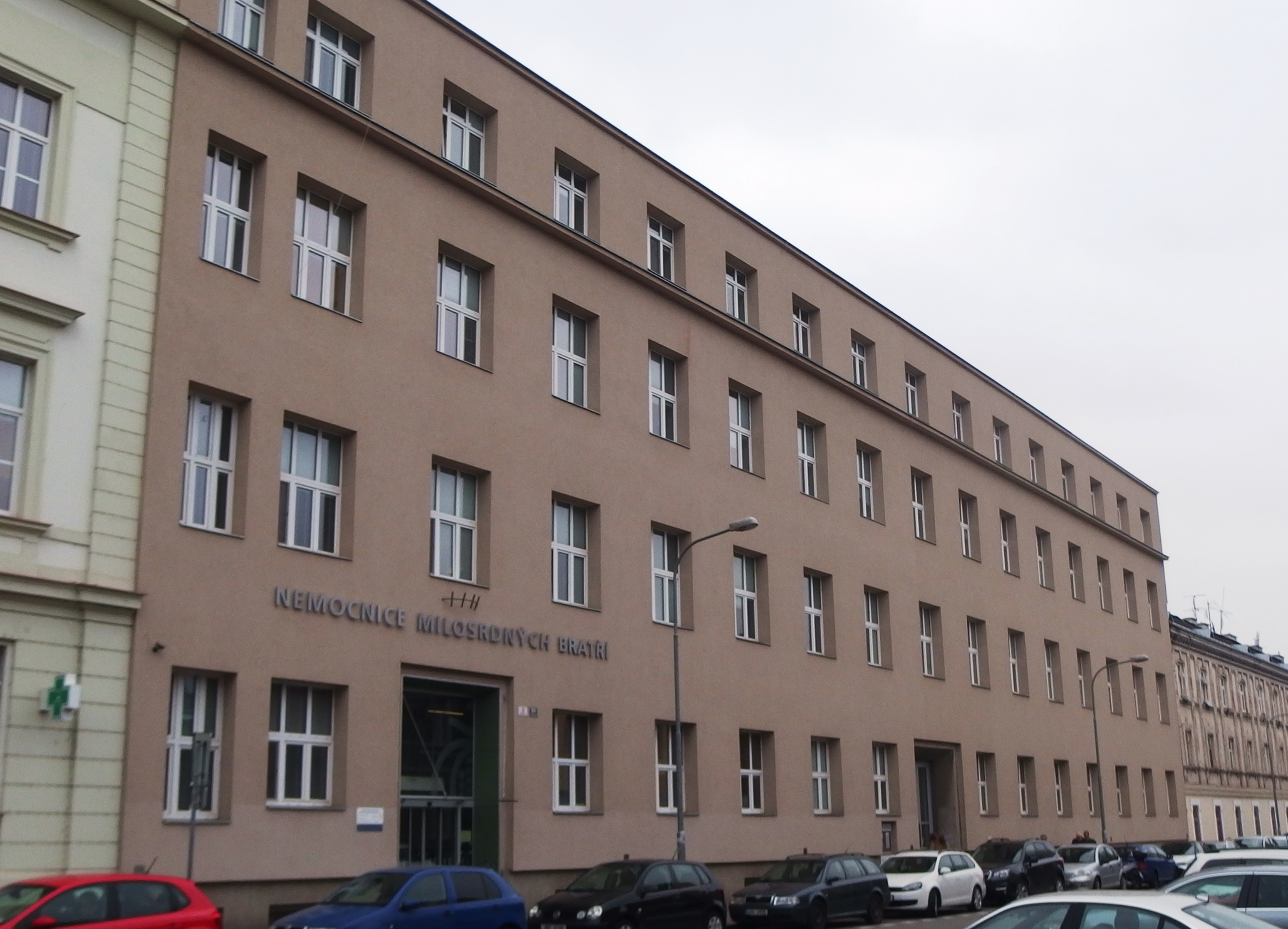 Brno, Czech Republic, part Štýřice.